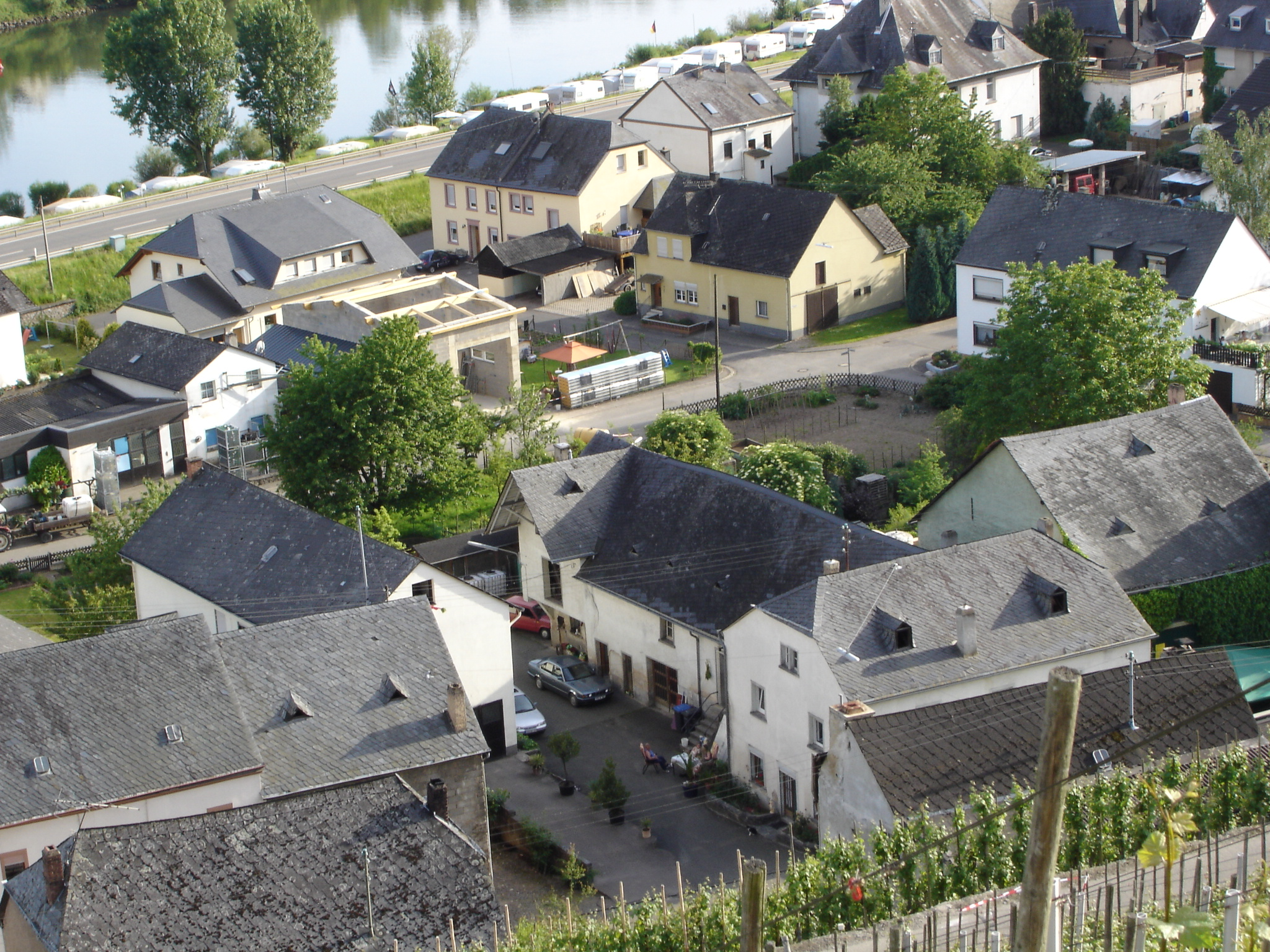 Klüsserath